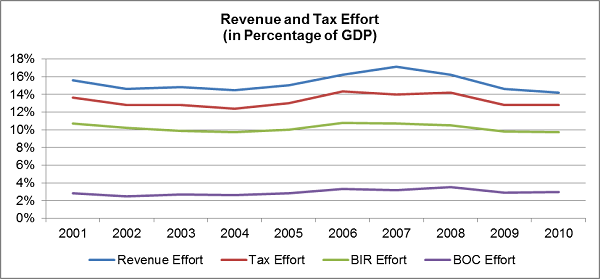 A graph showing the Philippines' Revenue and Tax effort from 2001-2010